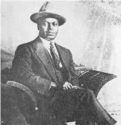 Pixley_KaIsaka_Seme